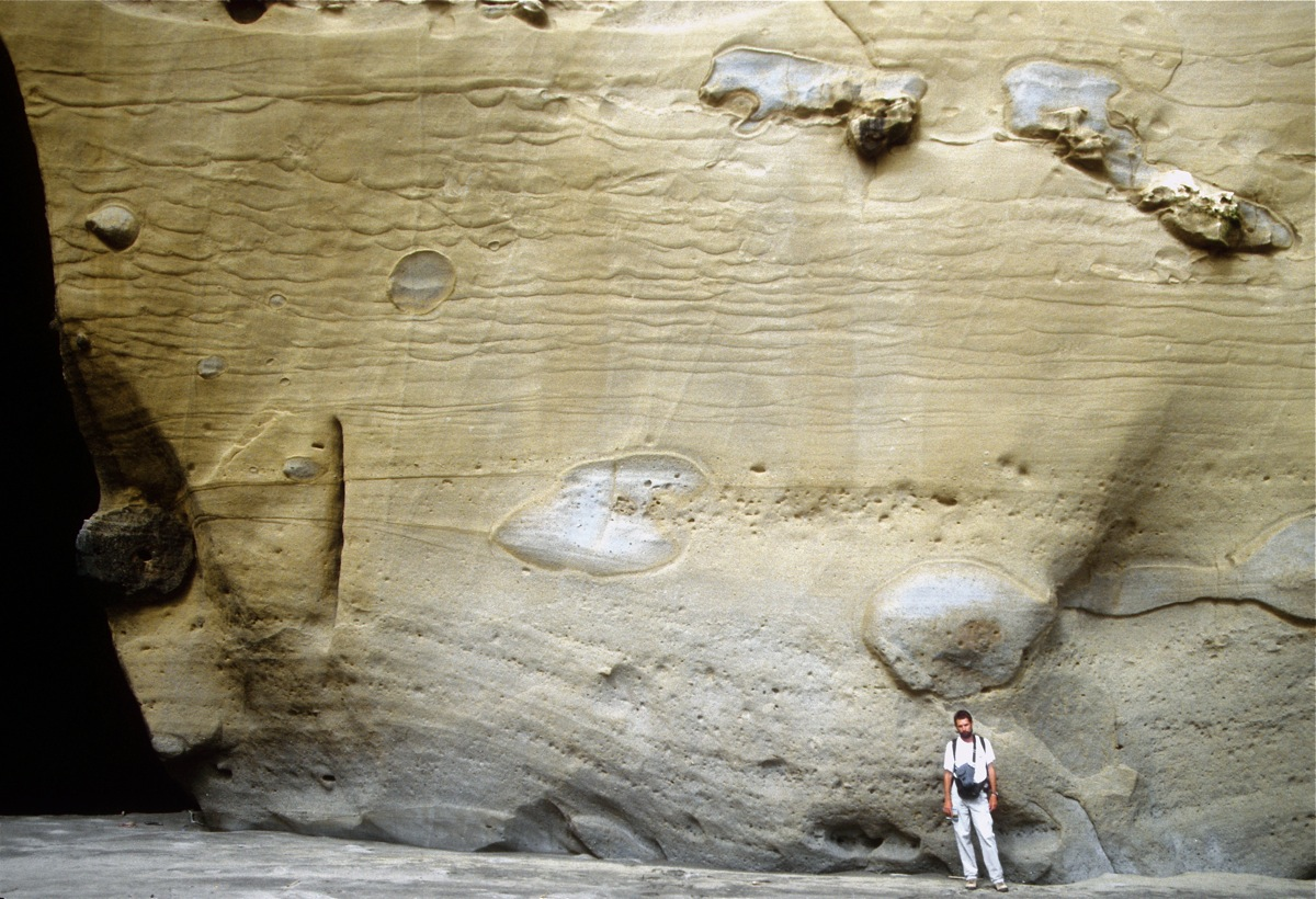 Giant dish structure near Talara, Peru. Courtesy Zoltan Sylvester, who has given his permission by e-mail.